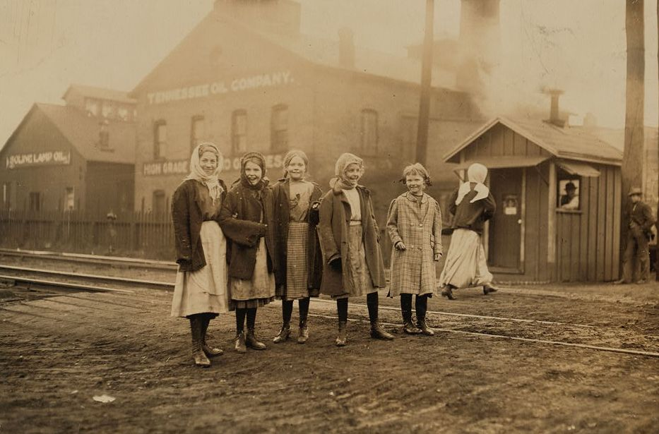 Brookside Mill workers in Knoxville, Tennessee, USA, photographed by Lewis Wickes Hine in 1910.